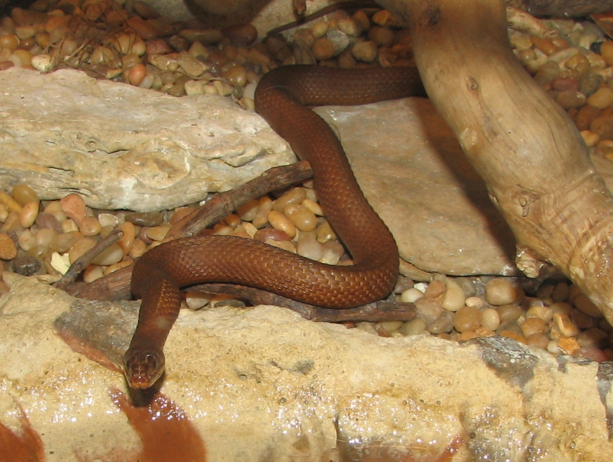 Mangrove water snake (Nerodia fasciata compressicauda) (synonymized with Nerodia clarkii compressicauda)